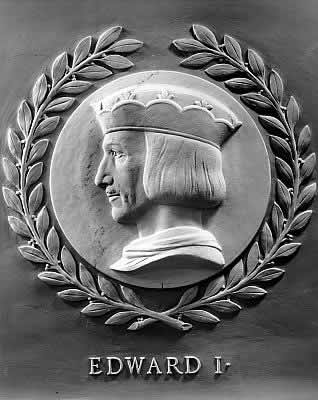 Edward I of England marble bas-relief, one of 23 reliefs of great historical lawgivers in the chamber of the U.S. House of Representatives in the United States Capitol. Sculpted by Laura Gardin Fraser in 1950. Diameter 28 inches.